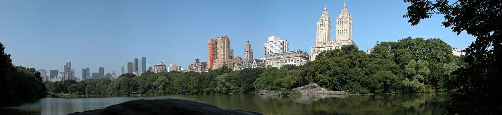 Central Park, Manhattan, New York, USA